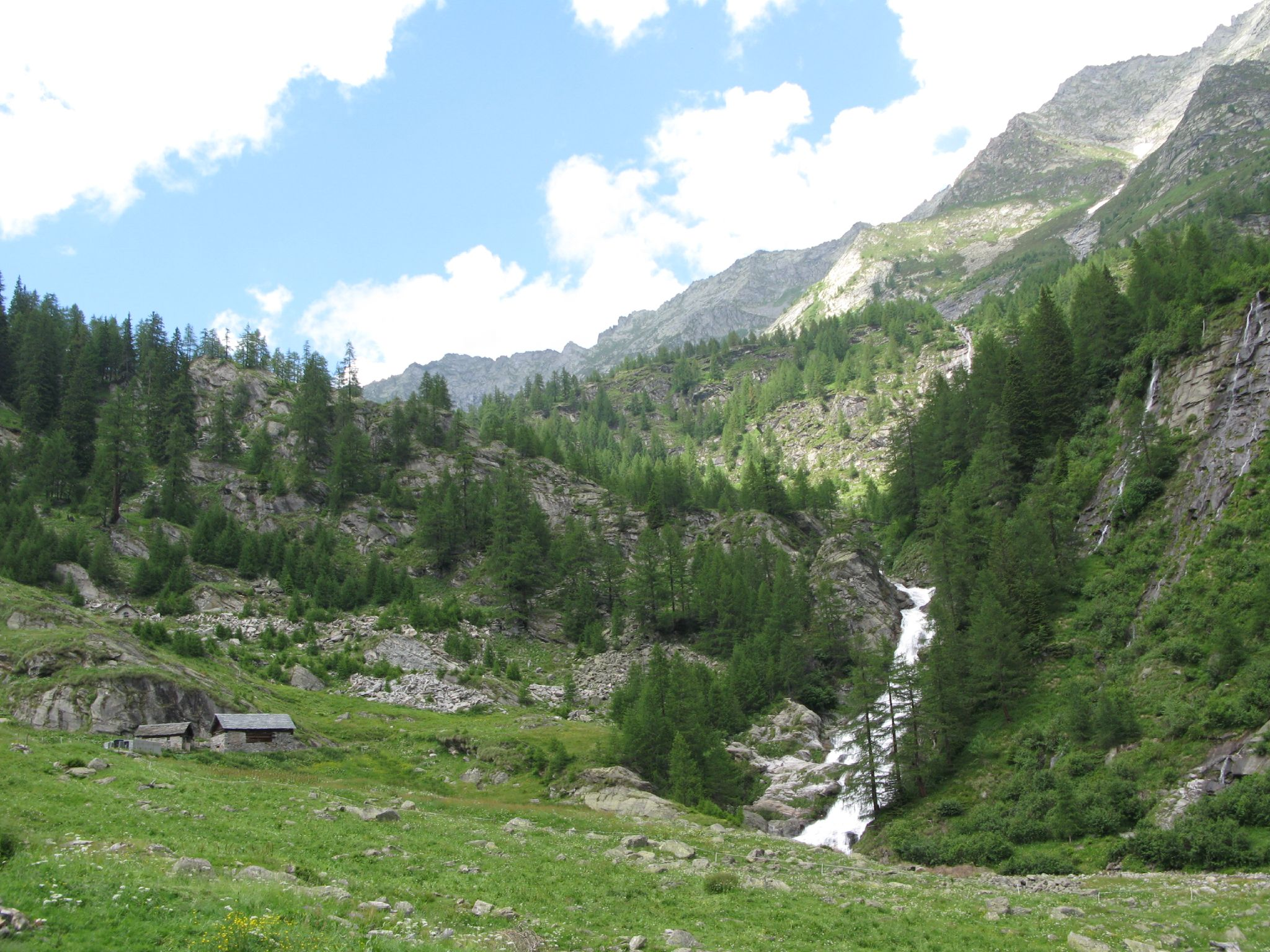 Landing site at Piano di Peccia, in Peccia village, Lavizzara, Ticino, Switzerland